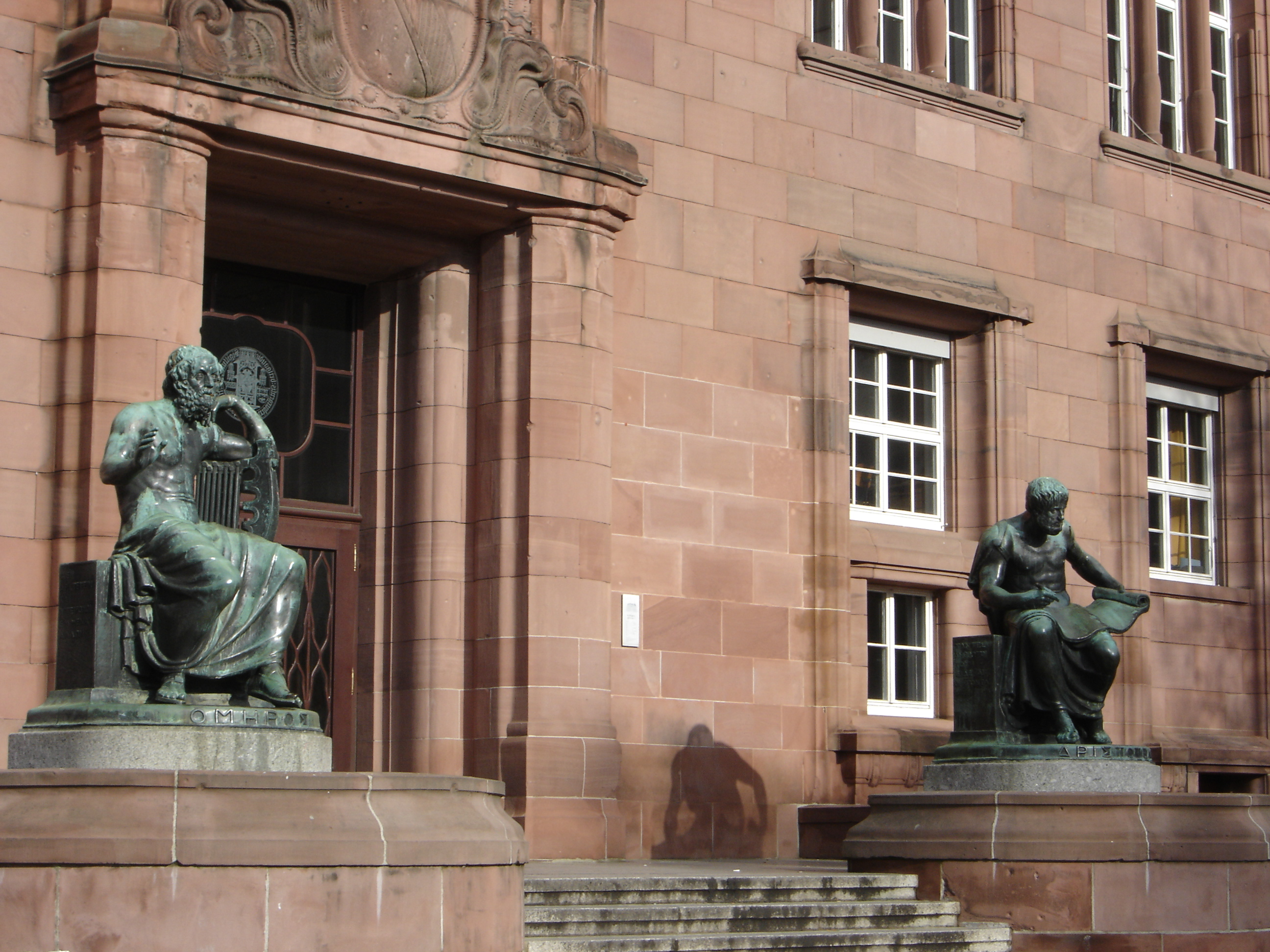 Statues of Homer (left) and Aristotle (right) at the university of Freiburg im Breisgau, Germany.